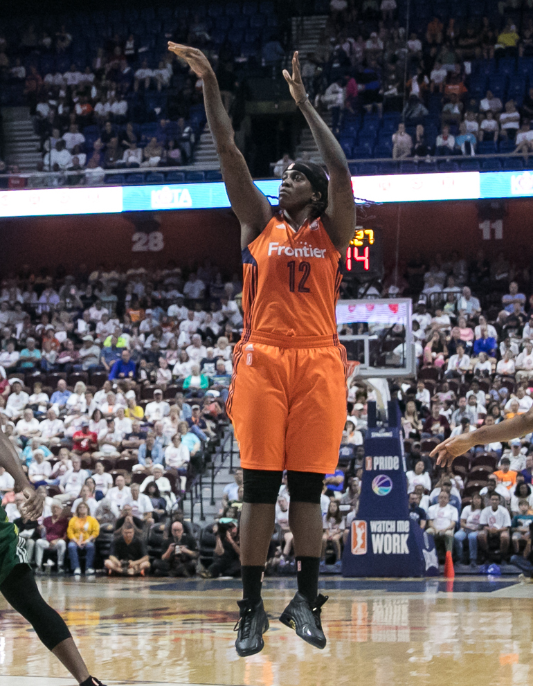 Lynetta Kizer playing for the Connecticut Sun in 2017